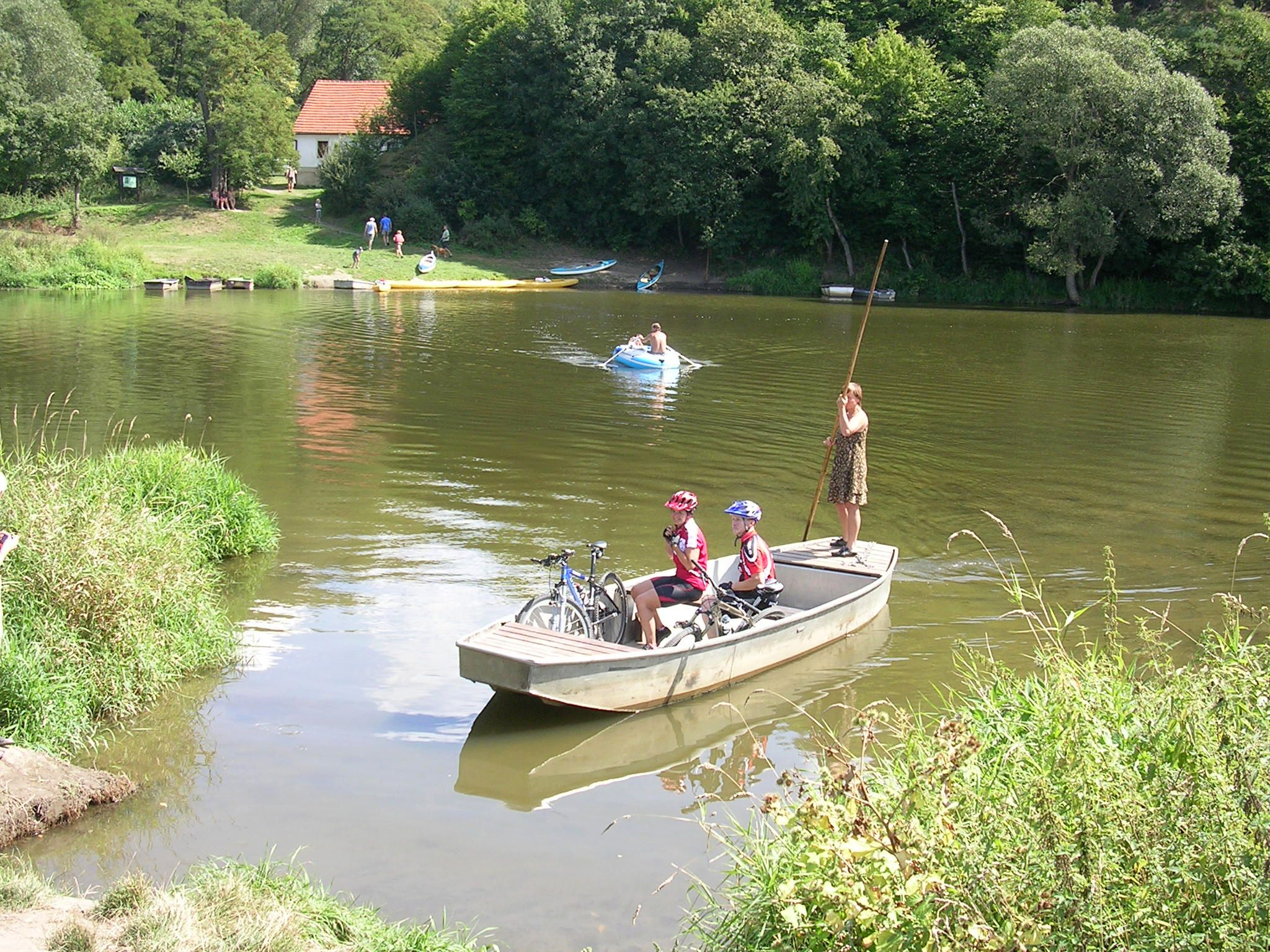 Nezabudice, Rakovník District, Central Bohemian Region, the Czech Republic. The ferry to Branov-Luh.